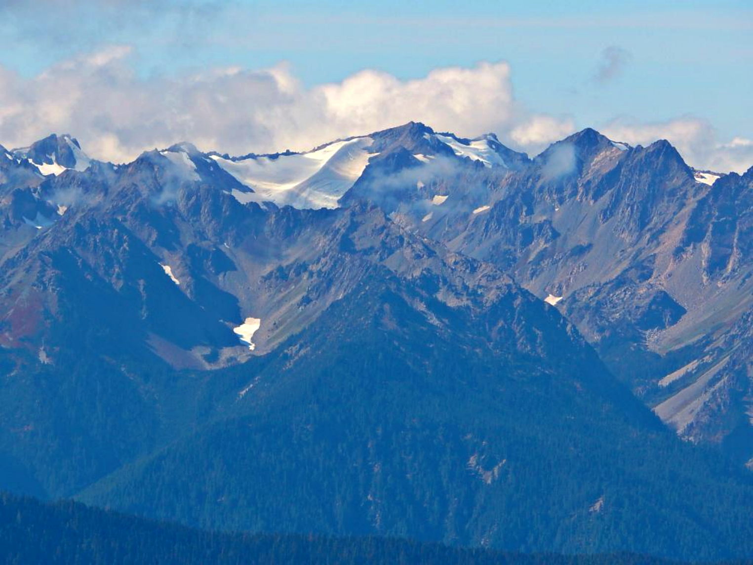 Mount Carrie centered in the distance in this view from Obstruction Peak with a long lens. The upper part of Fairchild Glacier is on the left. Mount Fairchild on the right. The camera is pointed west. September 27, 2014 Olympic National Park